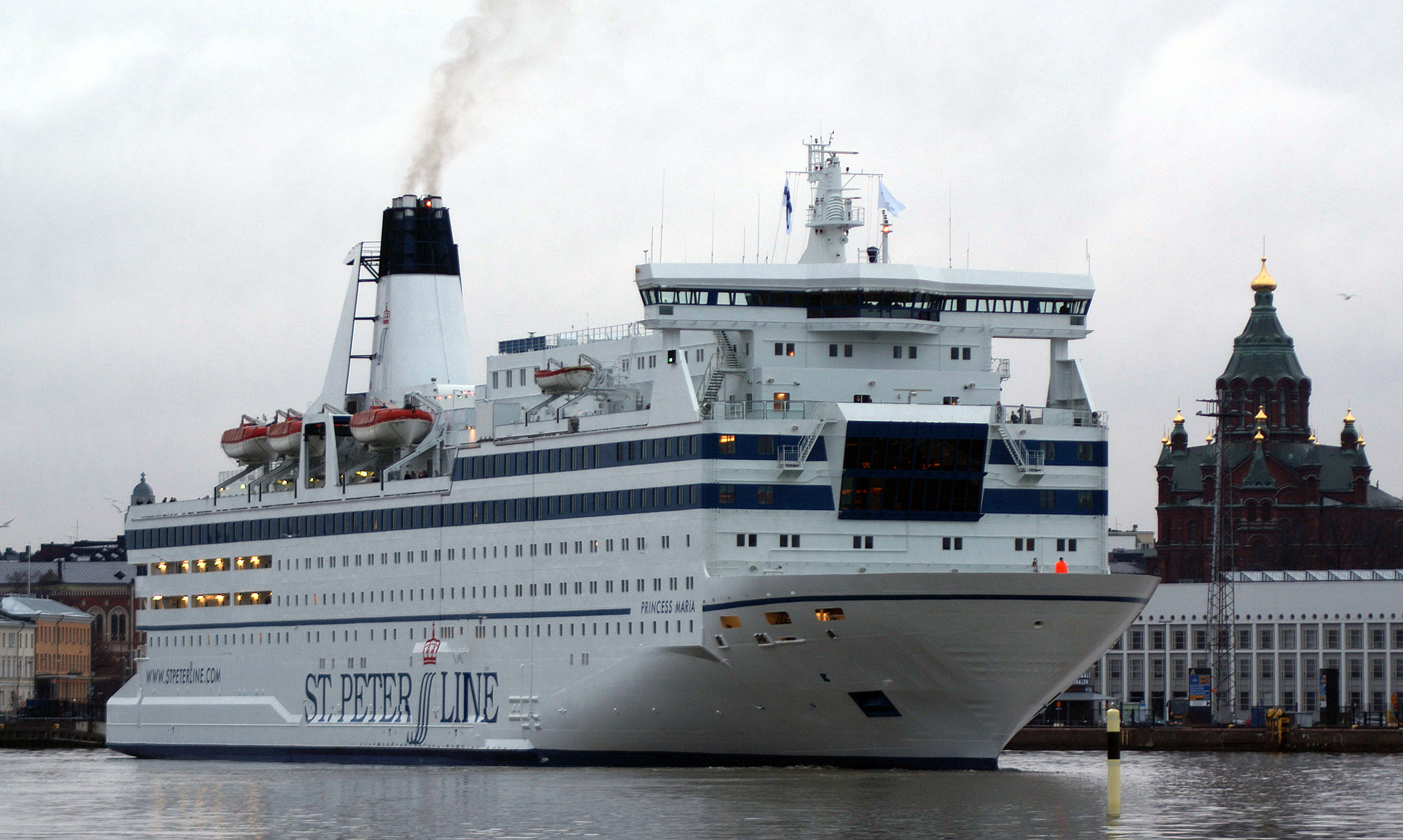 Princess Maria departing Helsinki (South Harbour) on her first visit, when she started traffic on Helsinki – St. Petersburg route.